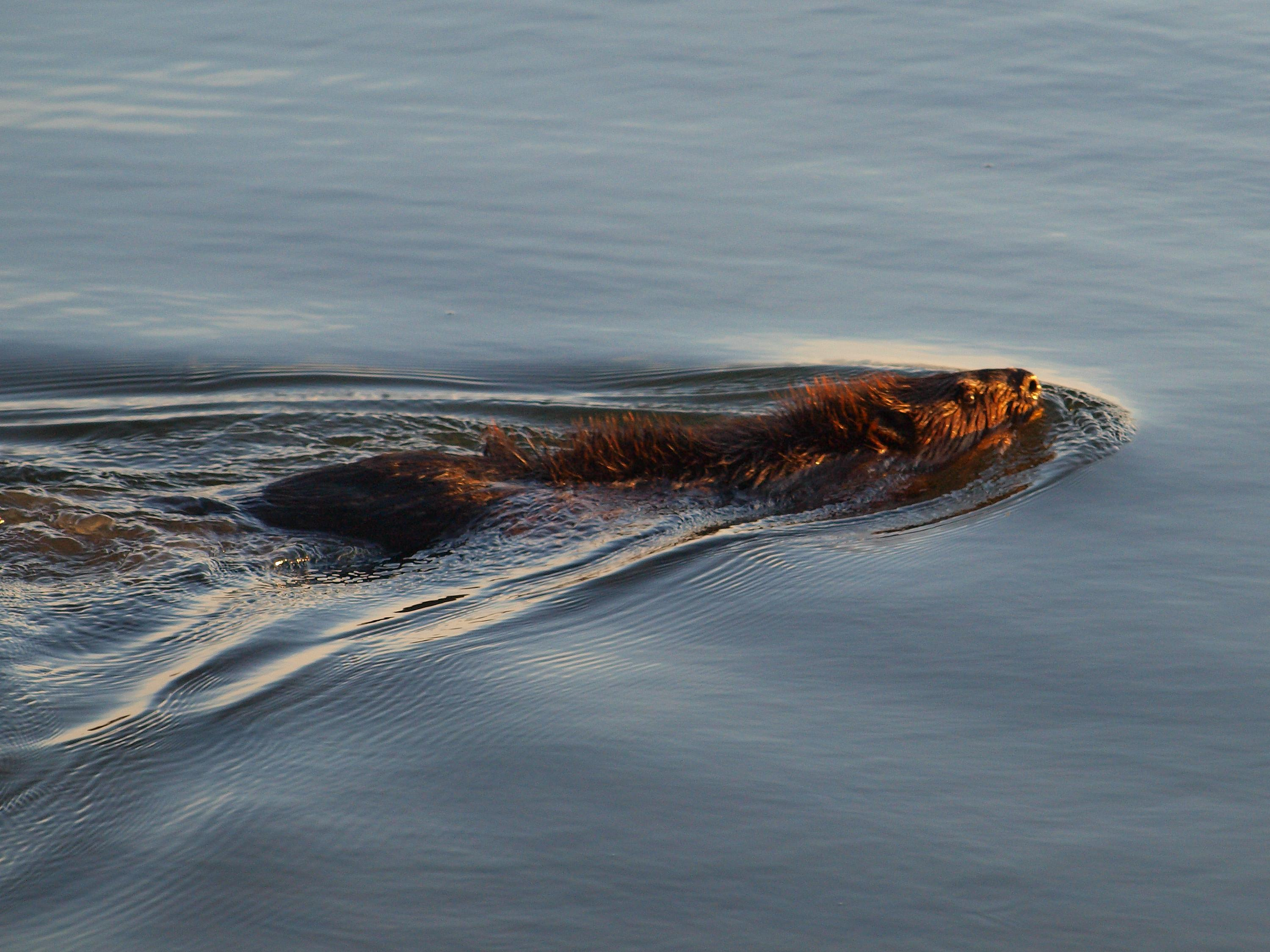 I was startled when this guy swam past me with wood. I did not really see him and thought a log was moving right past me. I took some shots as he was coming back and forth from his/her dam; he did not mind me there snapping at all! I love these guys! It's unfortunate that they are killed because they are considered pests. "Beavers are known for their natural trait of building dams on rivers and streams, and building their homes (known as "lodges") in the resulting pond. Beavers also build canals to float building materials that are difficult to haul over land. They use powerful front teeth to cut trees and other plants that they use both for building and for food. In the absence of existing ponds, beavers must construct dams before building their lodges. First they place vertical poles, then fill between the poles with a crisscross of horizontally placed branches. They fill in the gaps between the branches with a combination of weeds and mud until the dam impounds sufficient water to surround the lodge." Wikipedia